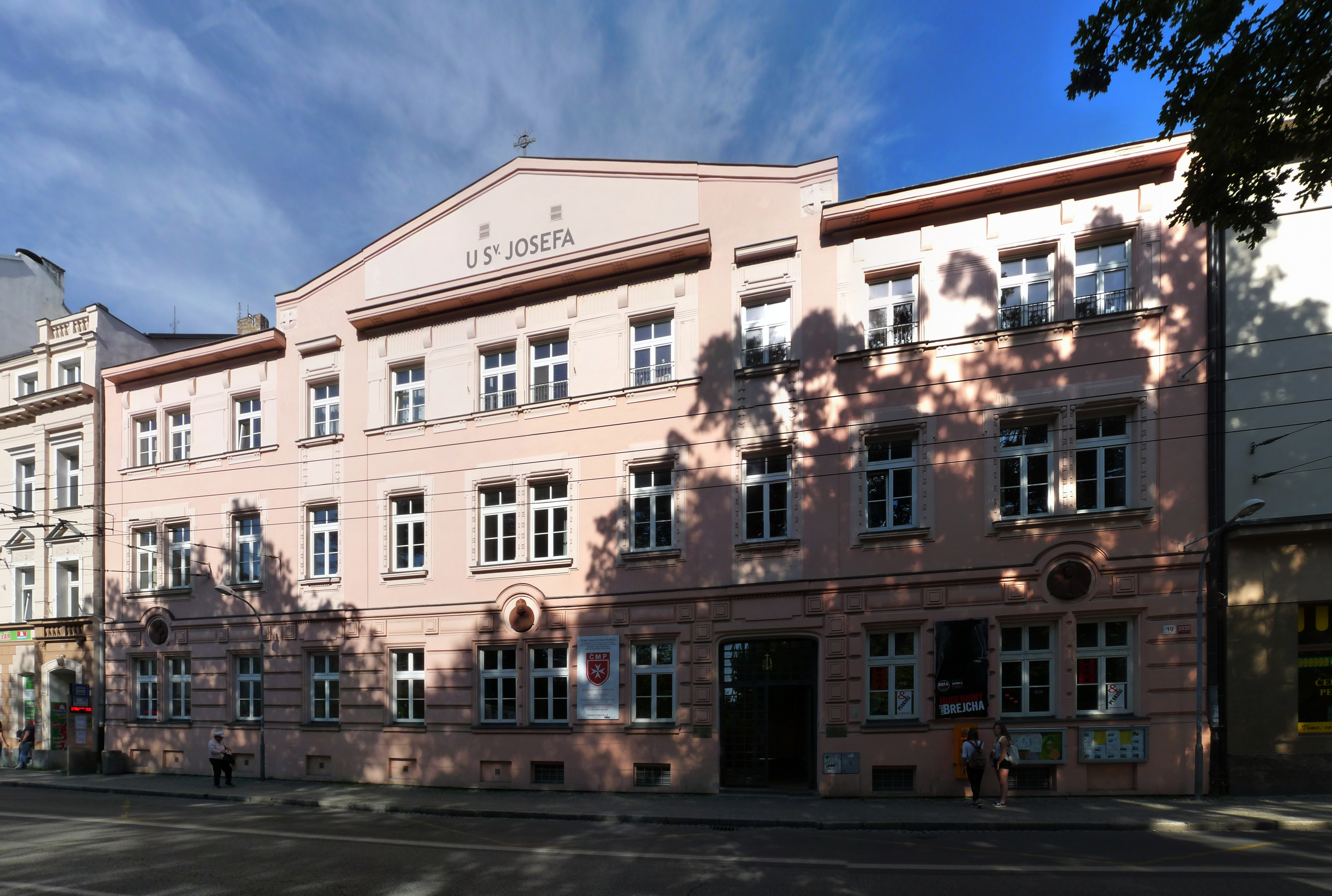 Building of a kindergarten, No 19 in Na Sadech Street in the town of České Budějovice, South Bohemian Region, Czech Republic.